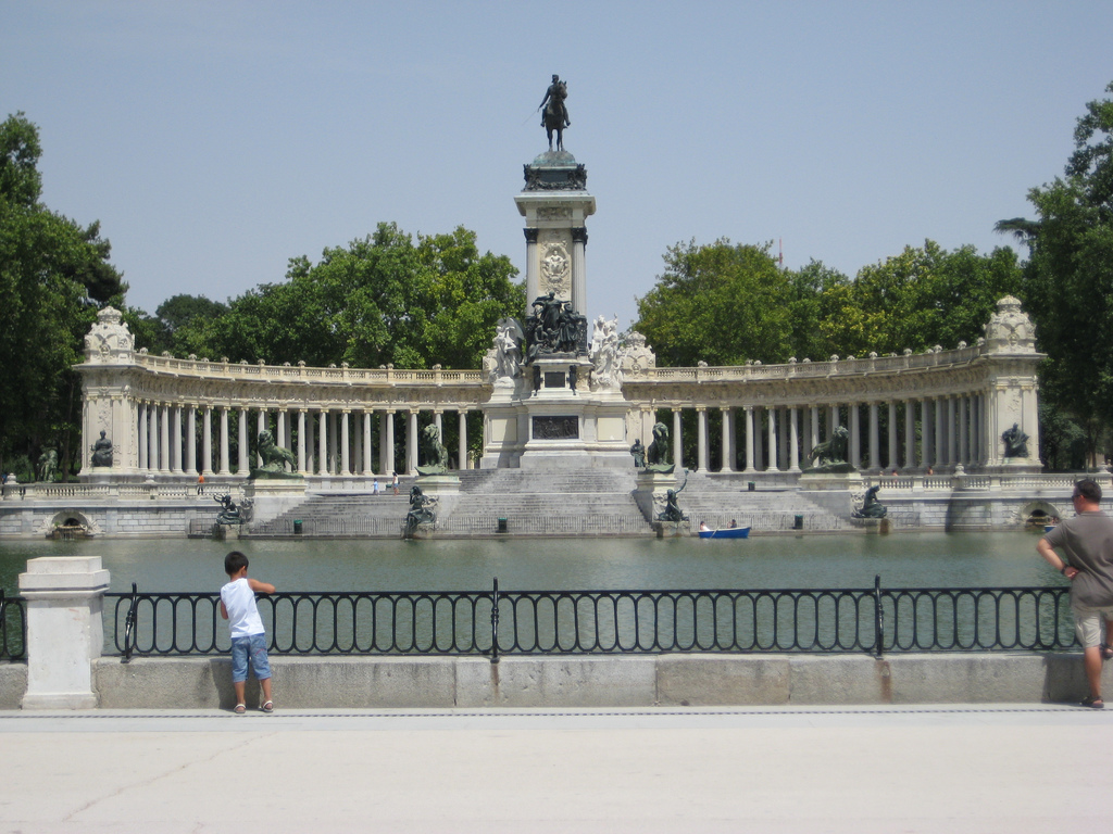 The monument to Alfonso XII of Spain in Retiro Park in Madrid.